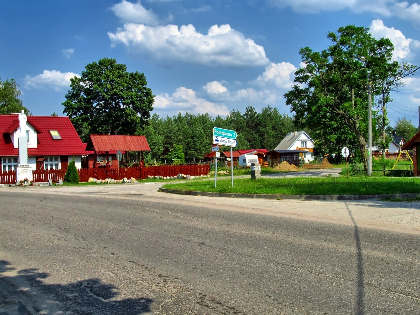 Borska center